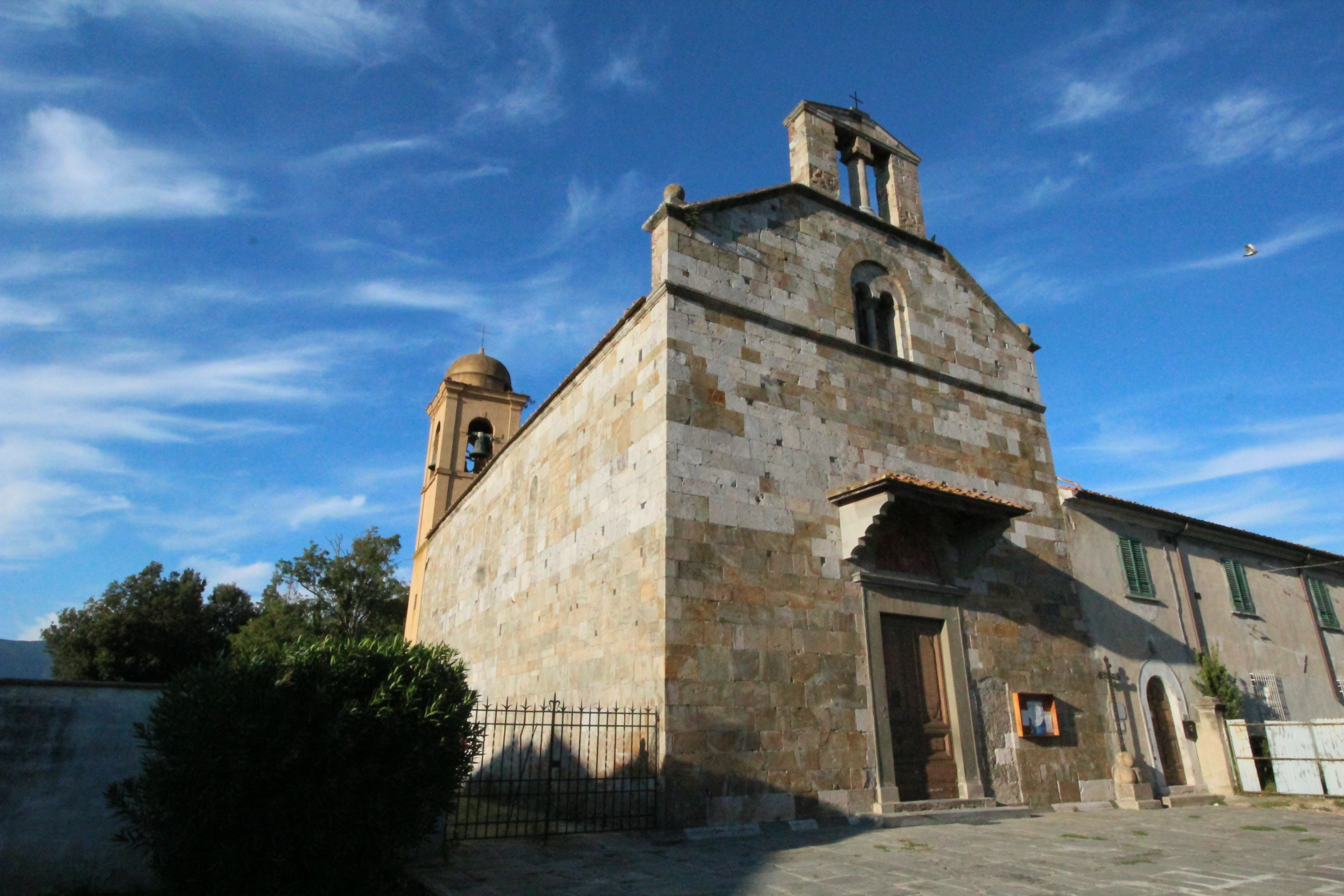 San Giorgio, Church in San Giorgio a Bibbiano, hamlet of Cascina, Province of Pisa, Tuscany, Italy